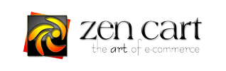 ZenCart Logo